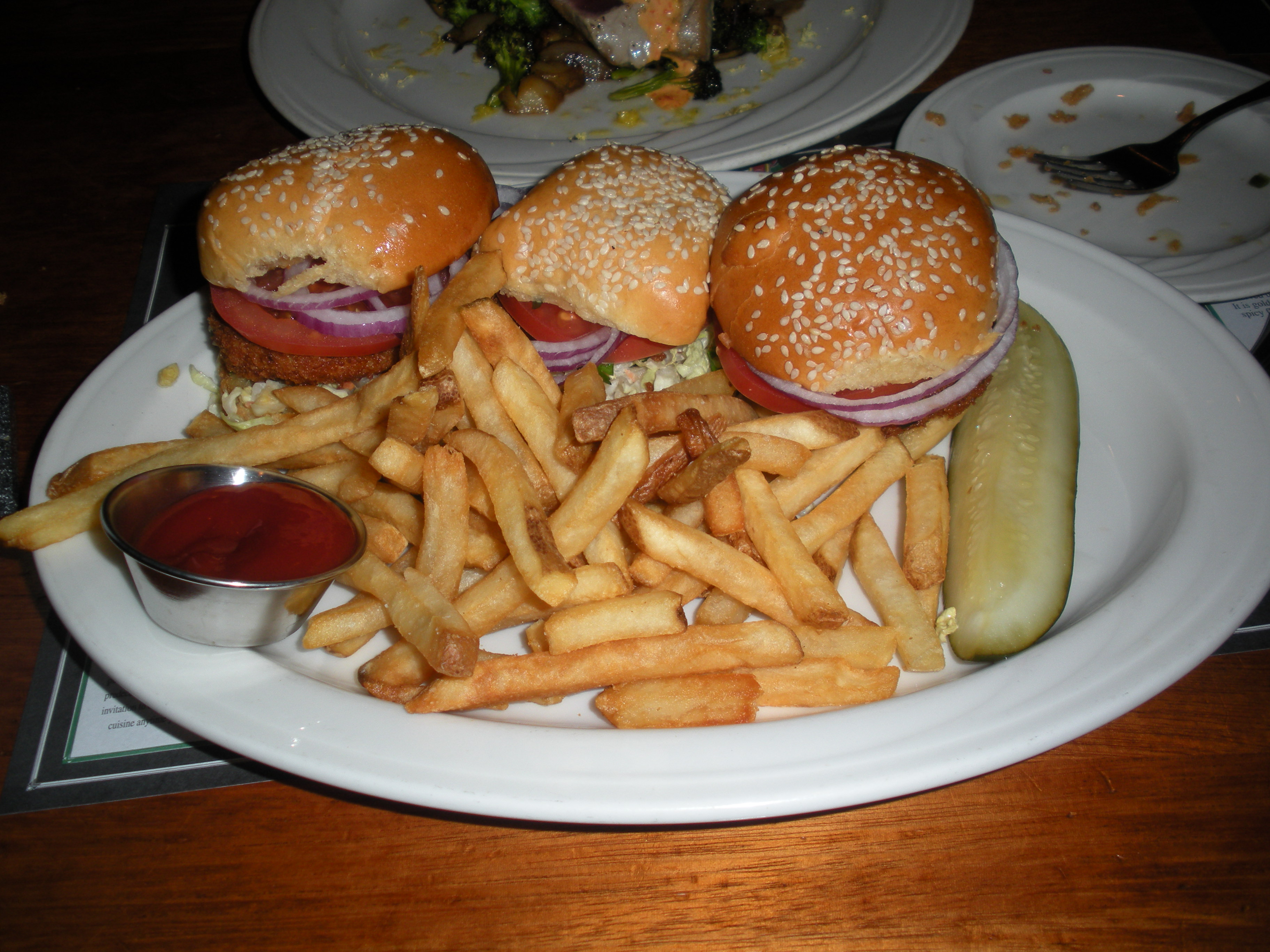 These are dungeness crab and shrimp cake sliders from Los Gatos Brewing Company. This image is also available at